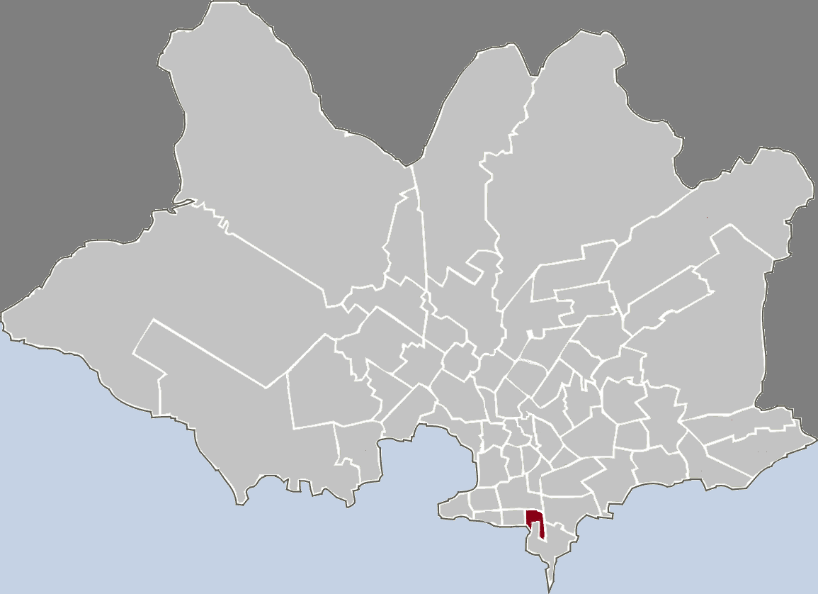 Map highlighting the given barrio in Montevideo.